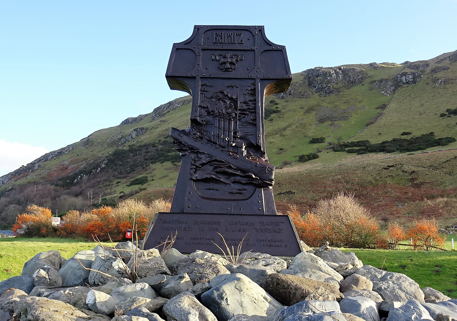 The Cruiser Varyag Monument, Carleton Port, Lendalfoot, South Ayrshire, Scotland.